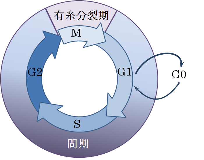 Cell Cycle